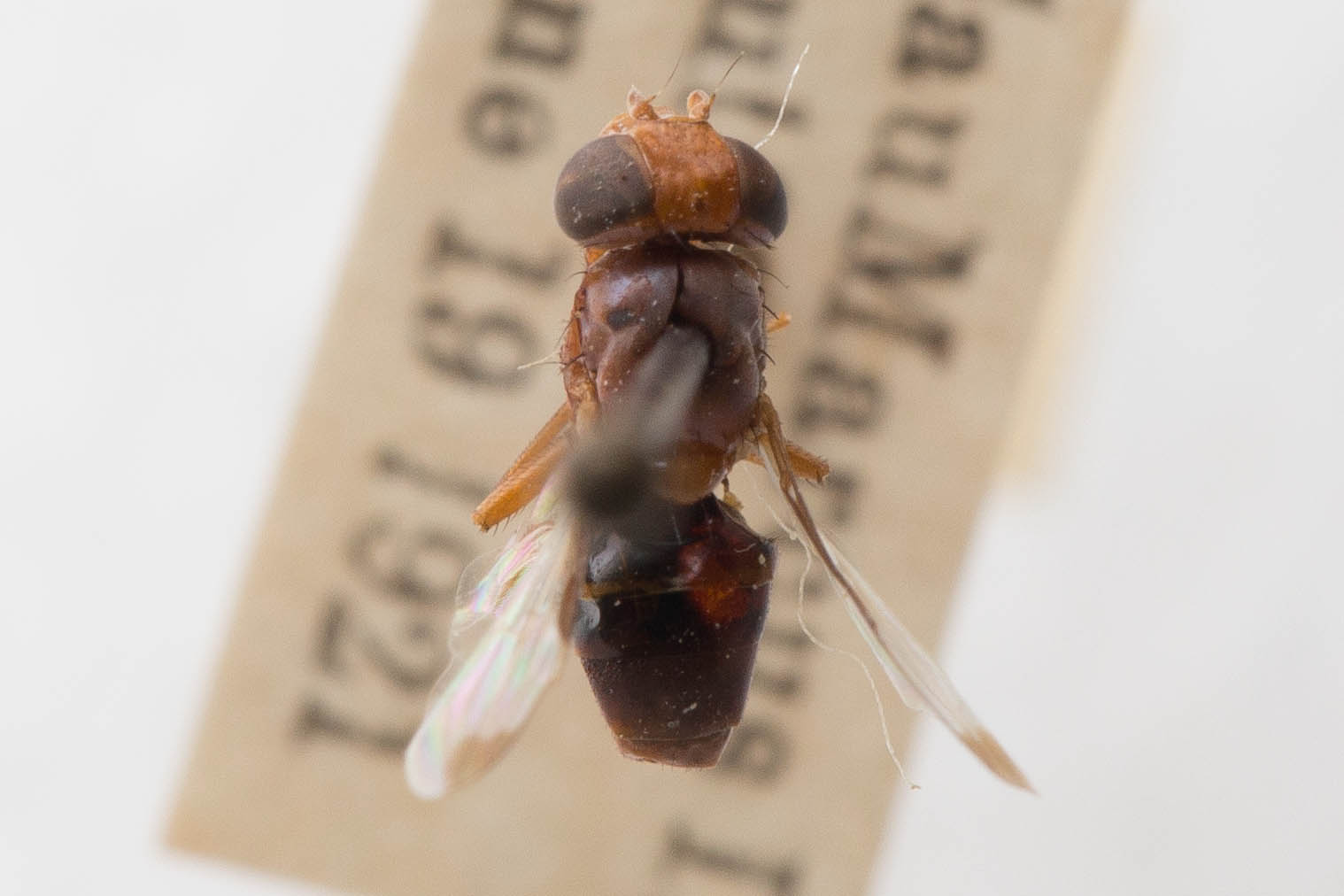 Acrosticta rubida, dorsal